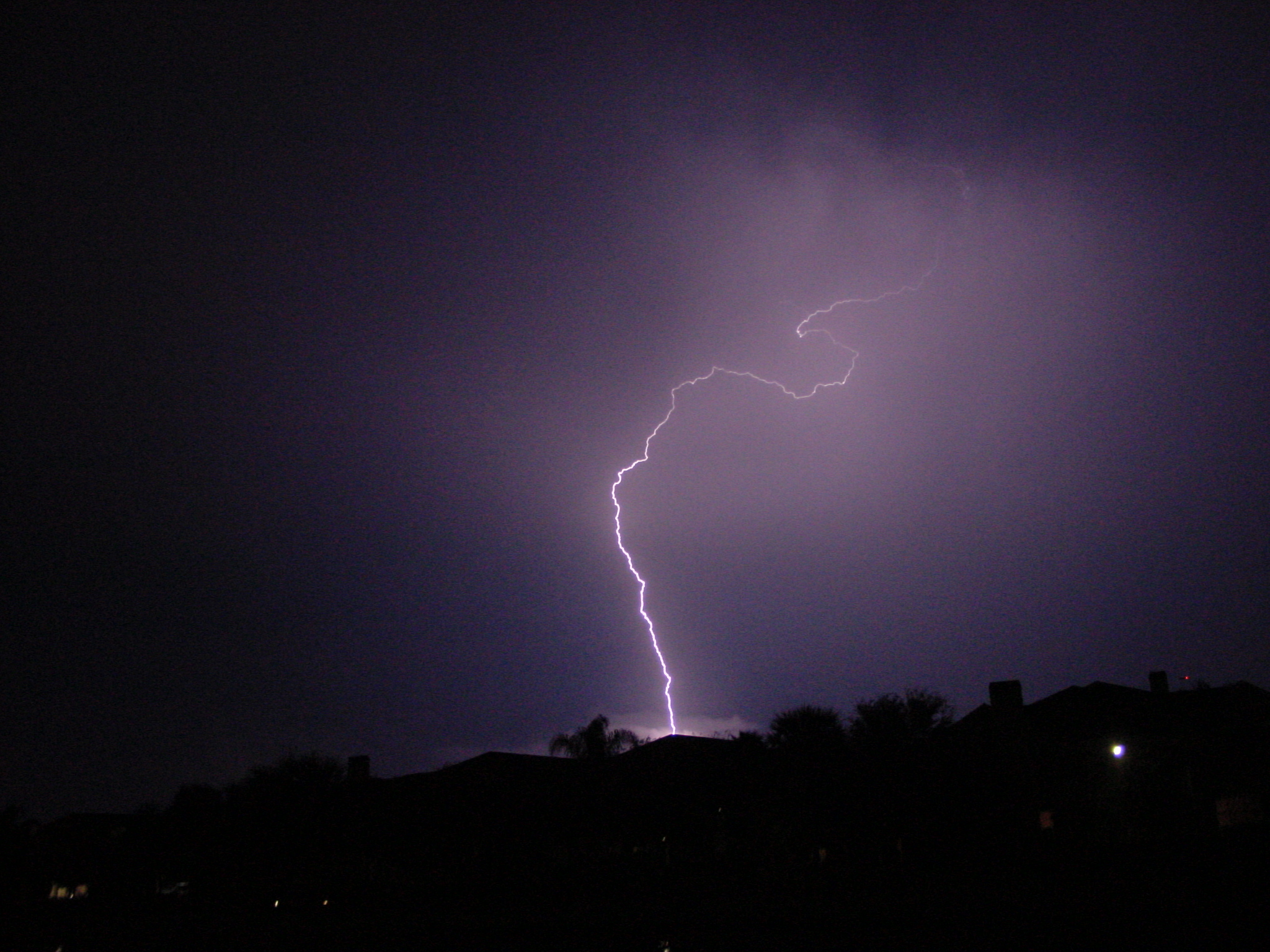 This photograph is of a lightning strike in Tampa, Florida. Although it appears that the lightning bolt hit the building, it actually didn't. The sudden flash of light made the camera incorrectly capture the bolt to the extent that it looks like it hit the building on the side nearest the camera. I'm not sure if the lightning bolt actually struck the ground or if it instead struck a low cloud, since the bottom was blocked by the nearby building. I believe it probably did strike the ground, because I think the clouds that can be seen near the bottom of the bolt were much further away than they appear. This image was captured mostly by accident. Because the lightning bolts occur so fast, I could only blindly point and shoot in a direction without knowing if a lightning bolt would appear. After I took several hundred pictures with my digital camera using this method over a period of about two hours, this was the only image that came out.